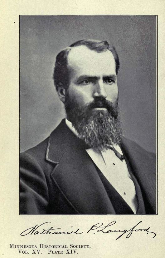 Portrait of Nathaniel P. Langford from THE VIGILANTE, THE EXPLORER, THE EXPOUNDER AND FIRST SUPERINTENDENT OF THE YELLOWSTONE PARK. BY OLIN D. WHEELER. (1912) From the text of an presentation given by Wheeler to the Montana Historical Society. Date of portrait is thought to be 1870.